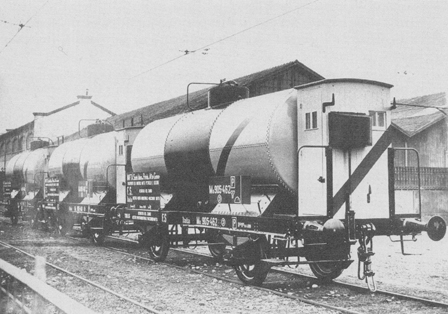 Moncenisio, Fuel tank wagons